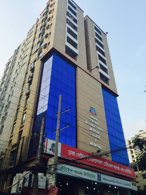 College building